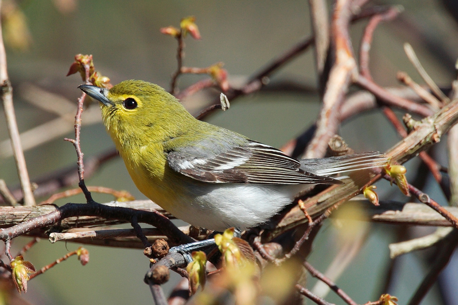 Yellow-throated Vireo. Rondeau Provincial Park, Ontario, Canada.